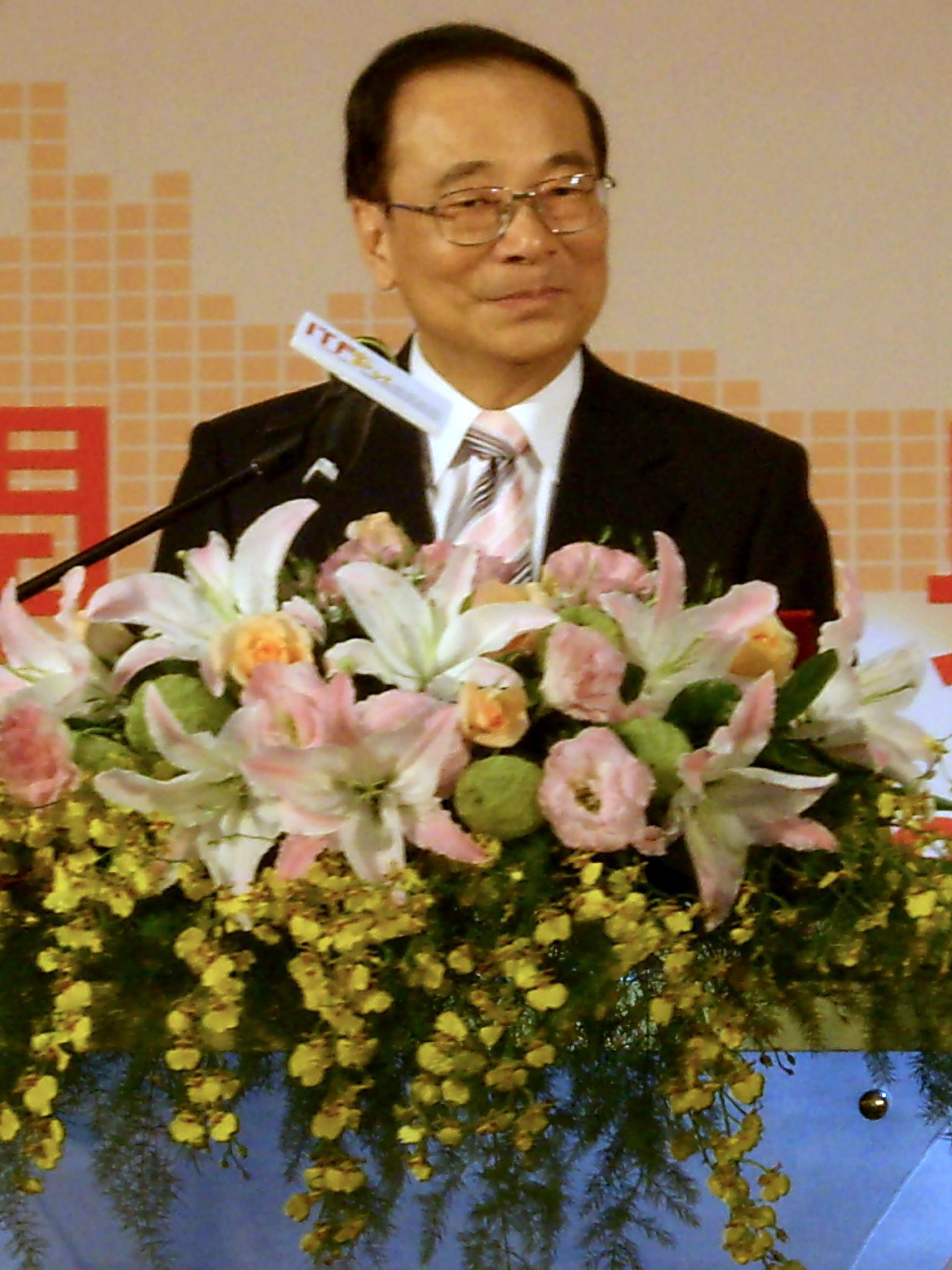 2007 Taipei International Travel Fair - Opening Ceremony: Chun-hsiung Chang, current Premier of the Republic of China. Bân-lâm-gú: 行政院院長張俊雄佇2007年臺北國際旅展開幕典禮。 Hîng-tsìng-īnn īnn-tiúnn Tiunn Tsùn-hiông tī 2007-nî Tâi-pak kok-tsè lú-tián khui-bōo tián-lé.